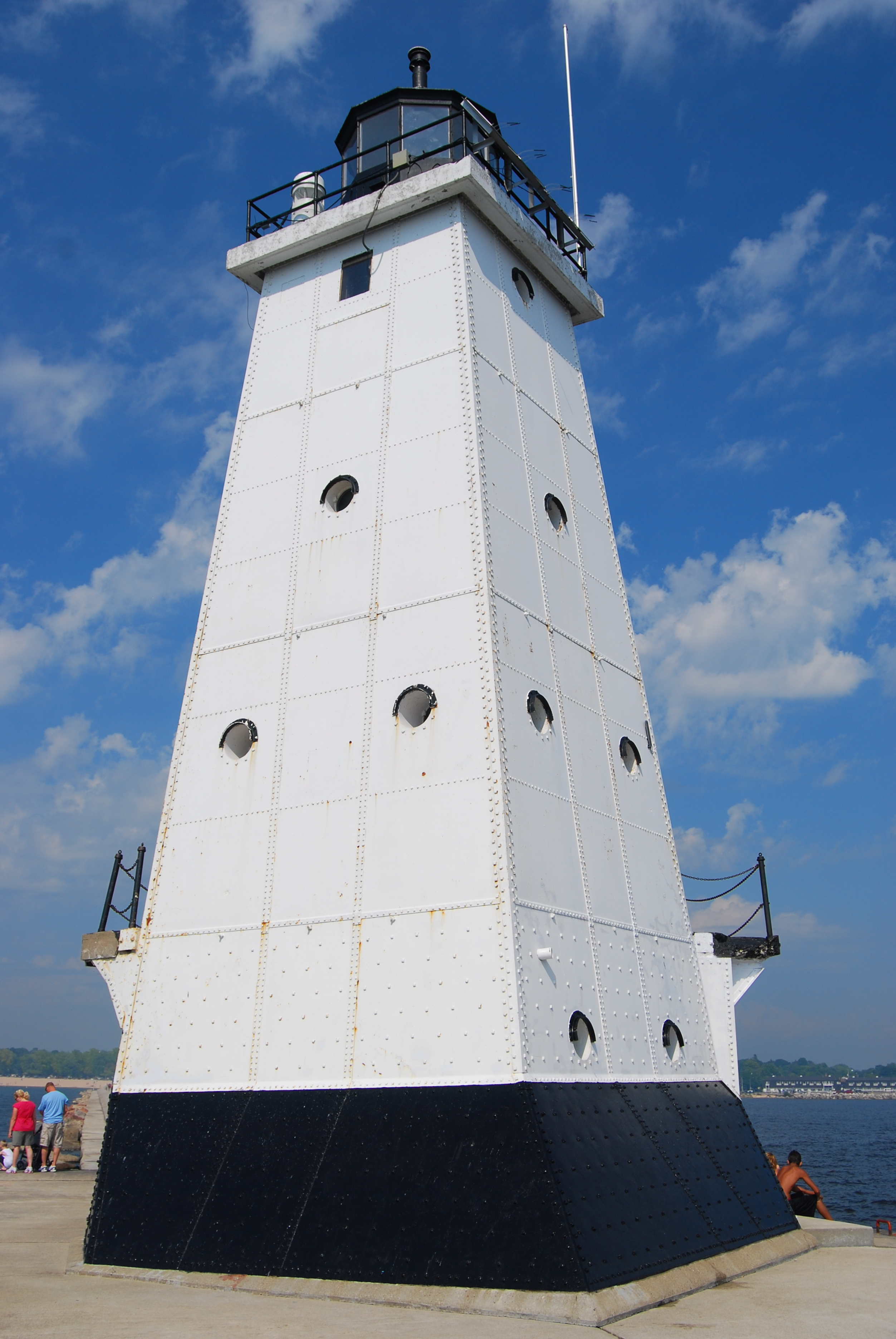 Ludington Light, from the "water" side - the west side.